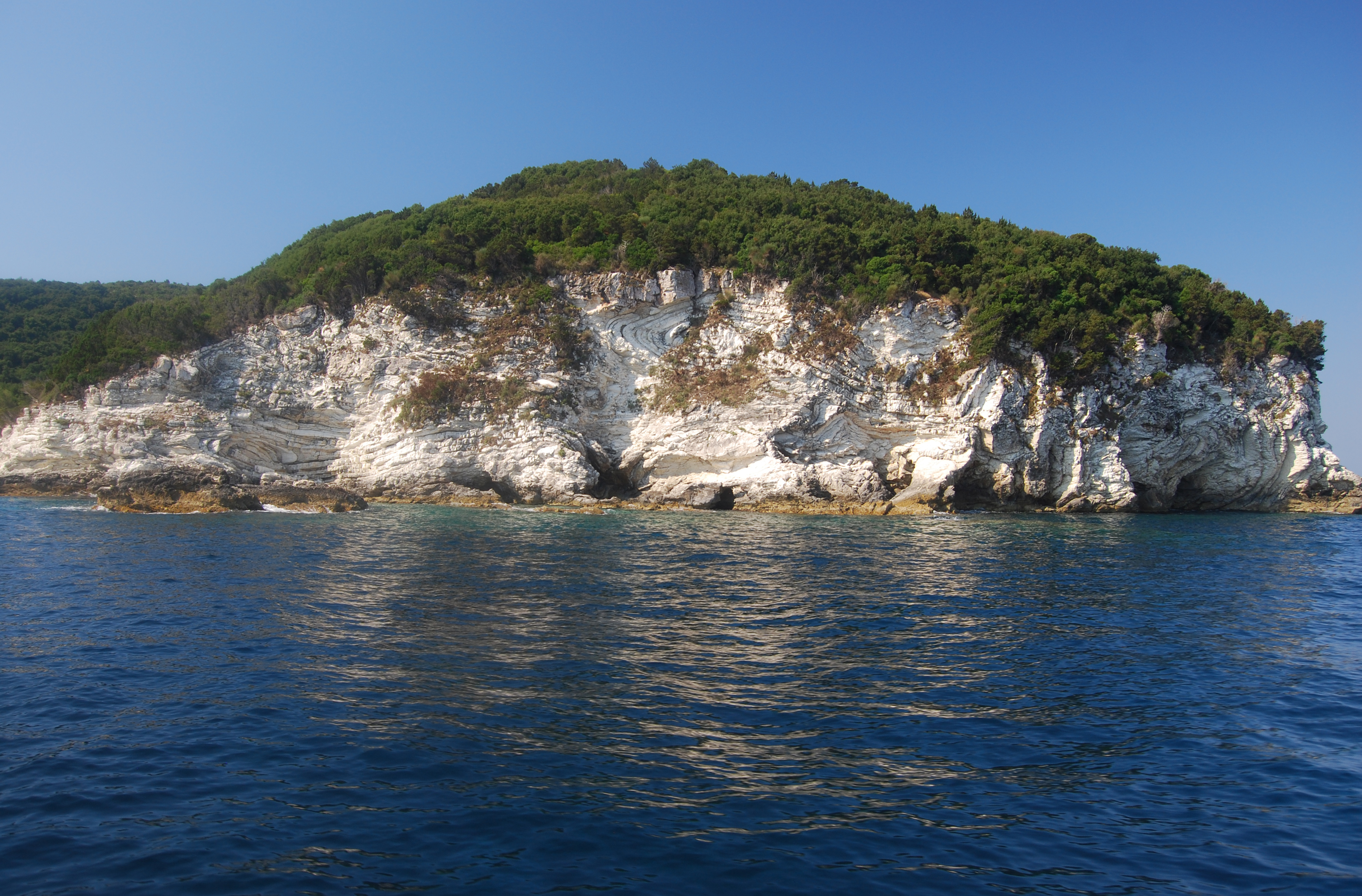 Coast of Andipaxos, Ionian Islands, Greece